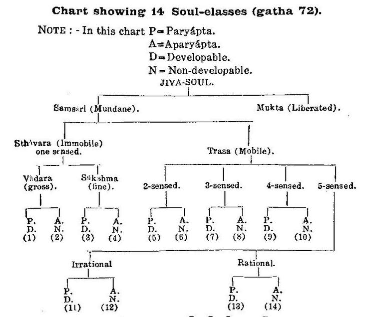 Classification of Jivas (souls) Source: The Sacred Books Of The Jainas: Gommatsara Jiva Kand (page-54)